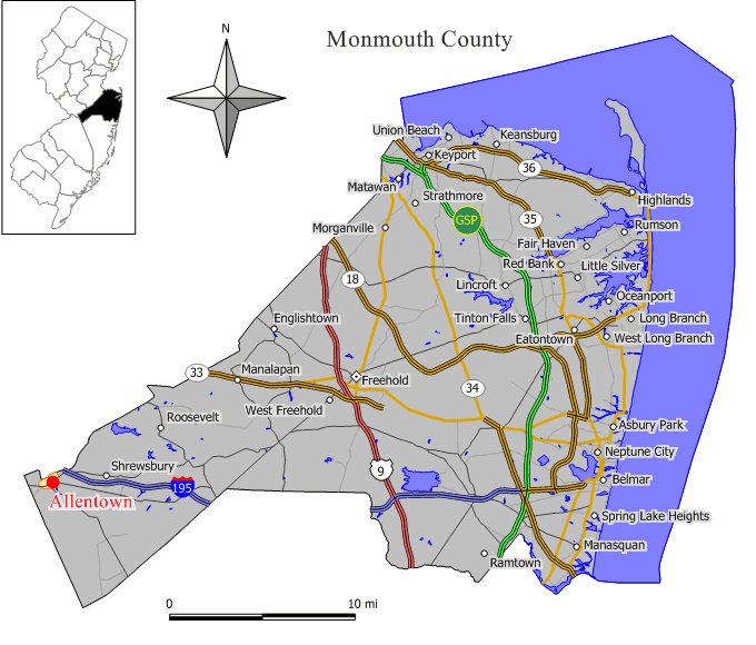 Source: Jim Irwin